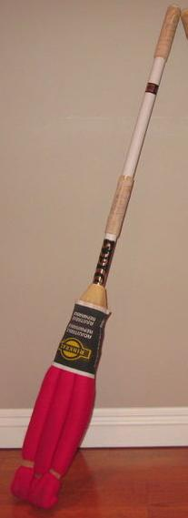 Corling broom Rat Rink